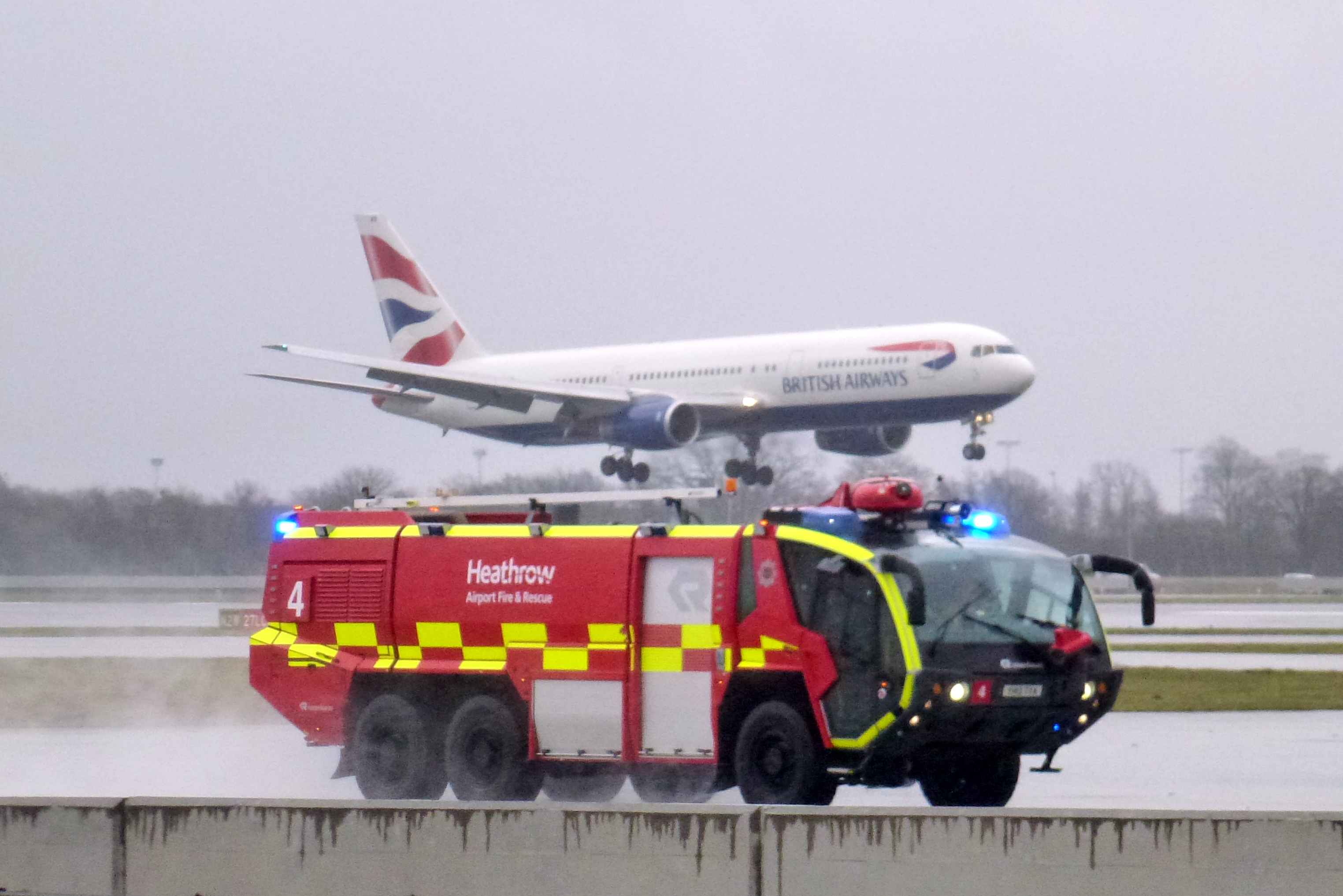 British Airways Boeing 767-300 landing on the No4 fire tender which was on its way to a call Kuwait A300 on rwy 027L.